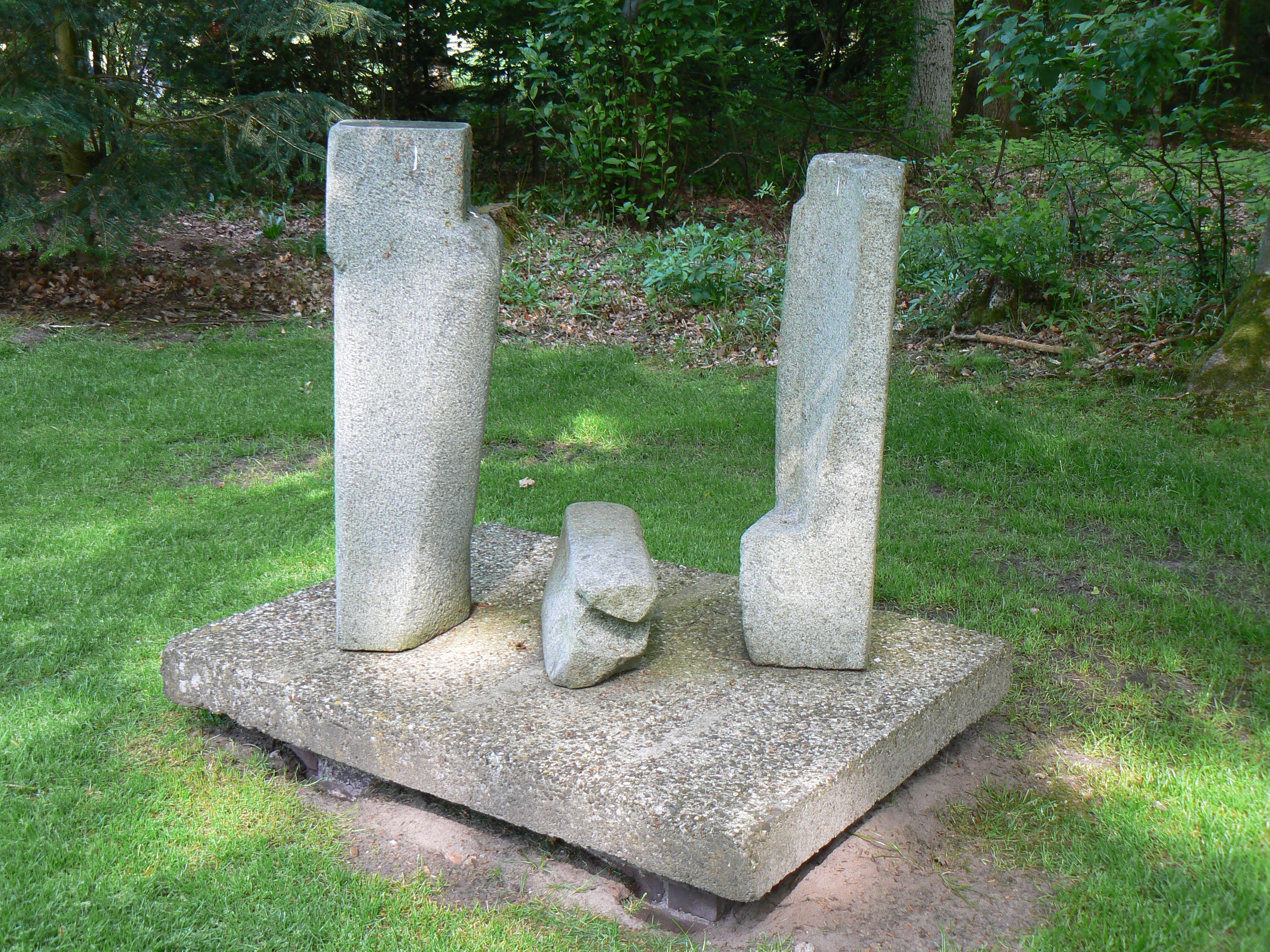 sculpture Composition sur un plateau (1956) by Shamaï Haber in sculpturepark KMM/The Netherlands